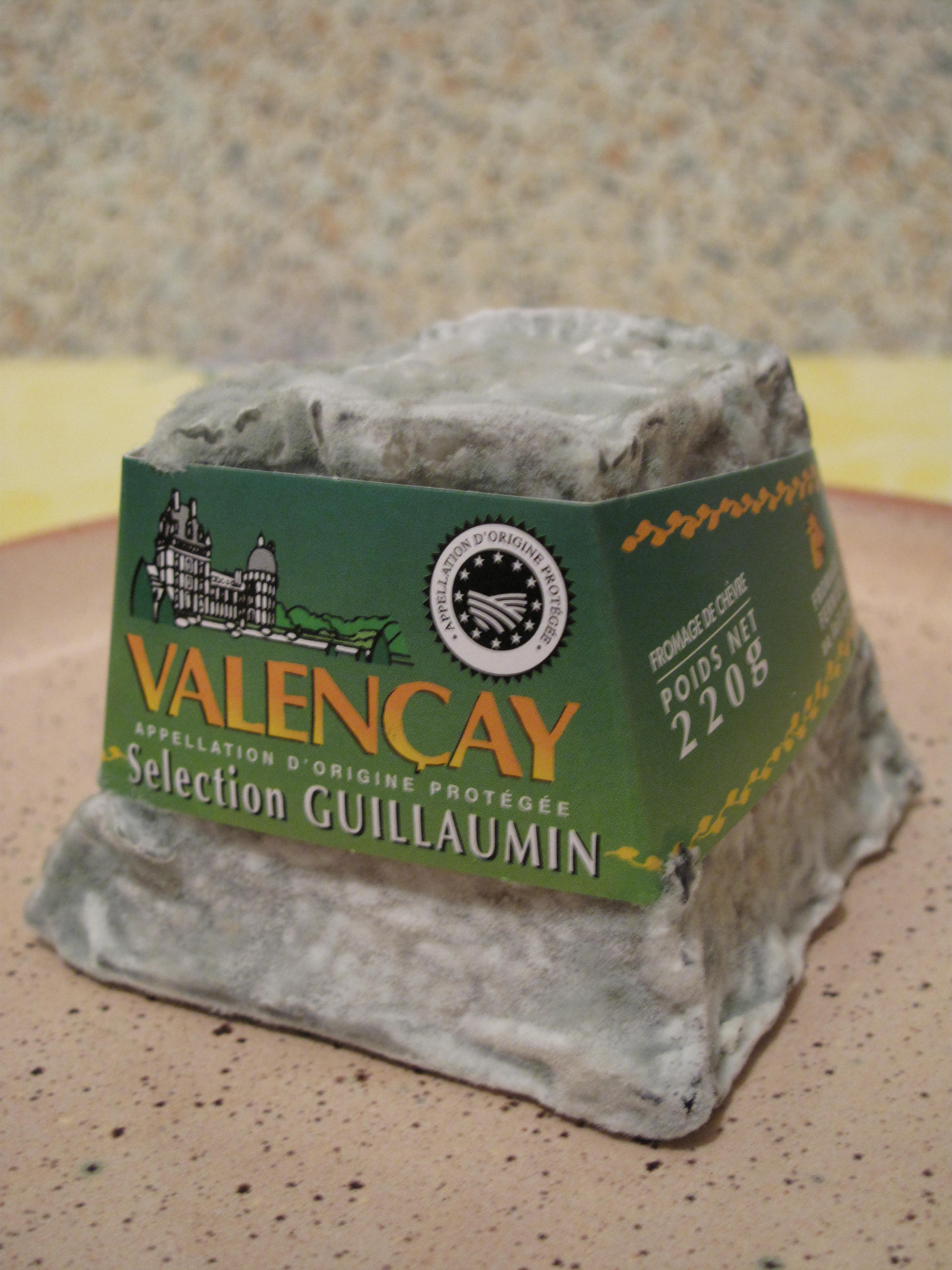 French goat's cheese Valençay. "Appellation d'origine protégée" = PDO : Protected Designation of Origin (european label).